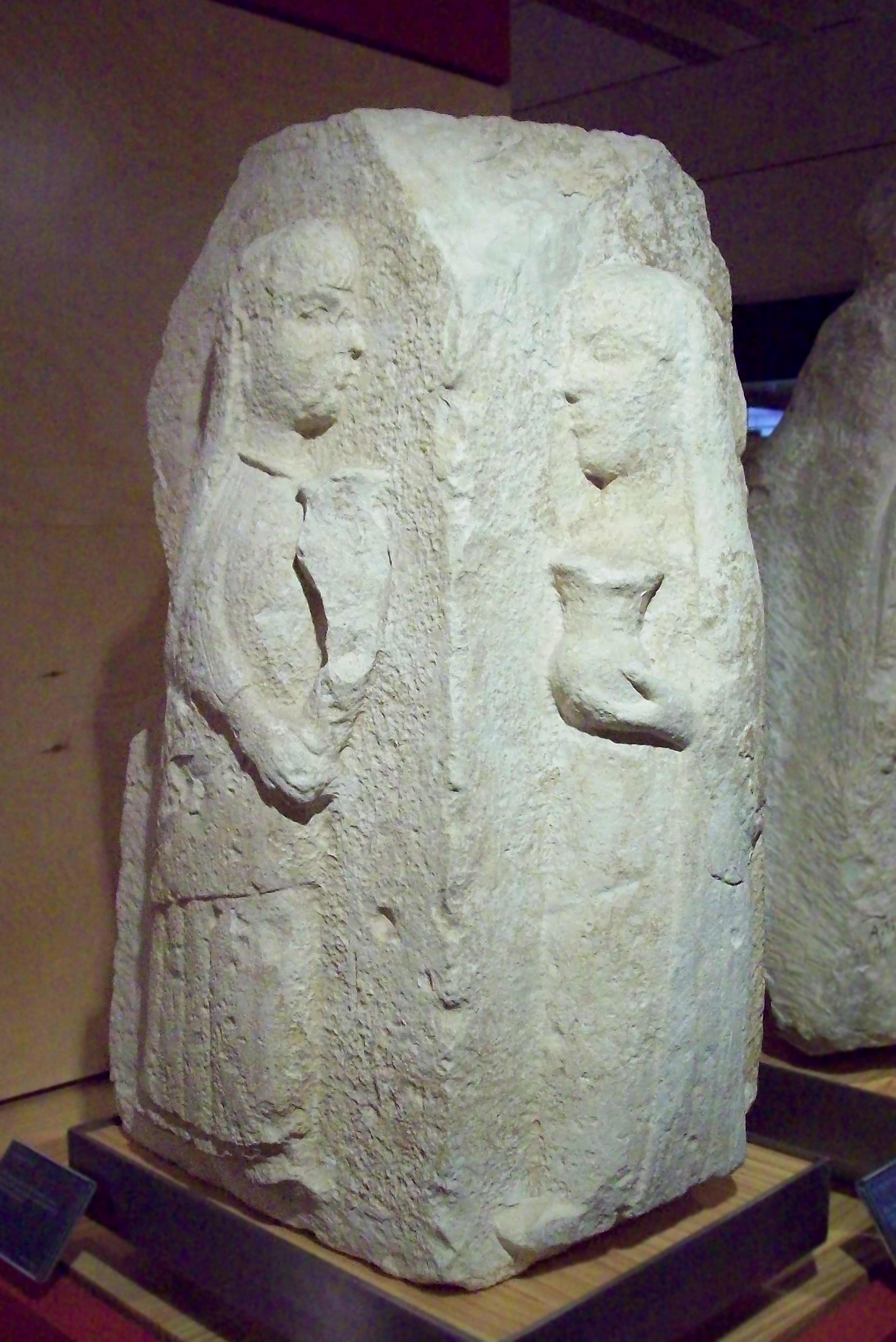 Piece of the Group A (3rd century BC) of the Sculptures of Osuna (Province of Sevilla, Andalusia, Spain). Iberian artwork sculpted in limestone. It's a corner ashlar with reliefs representing two young ladies or girls, wearing skirts, tunics and veils, and holding offerings in their hands.